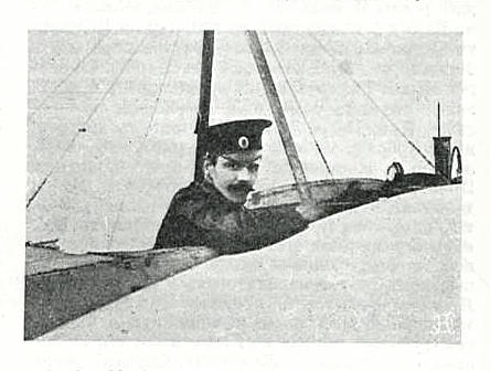 Bronislaw Matyjewicz-Maciejewicz